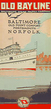 Baltimore Steam Packet Company ("Old Bay Line") 1953 timetable cover